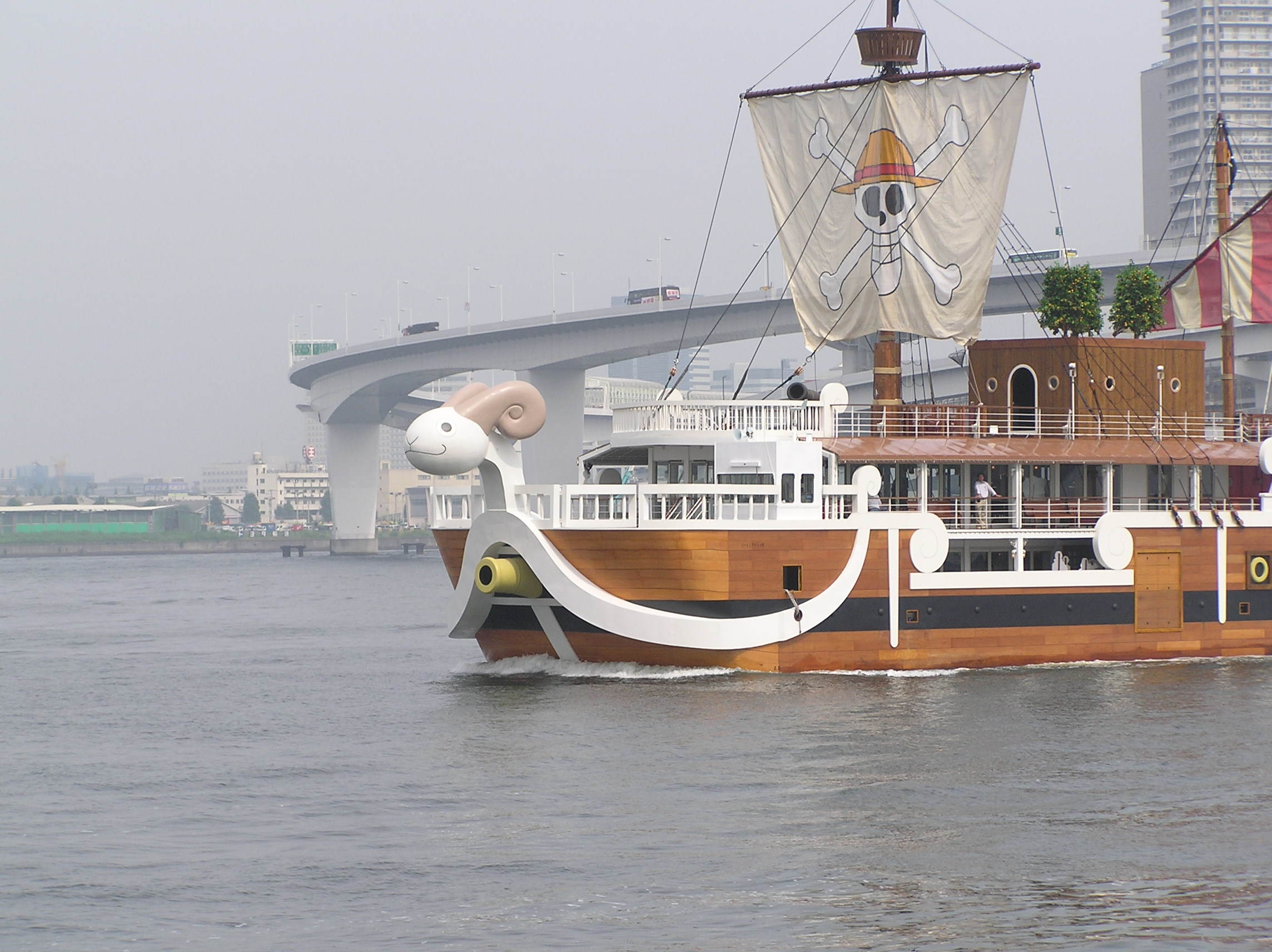 The Going Merry from One Piece